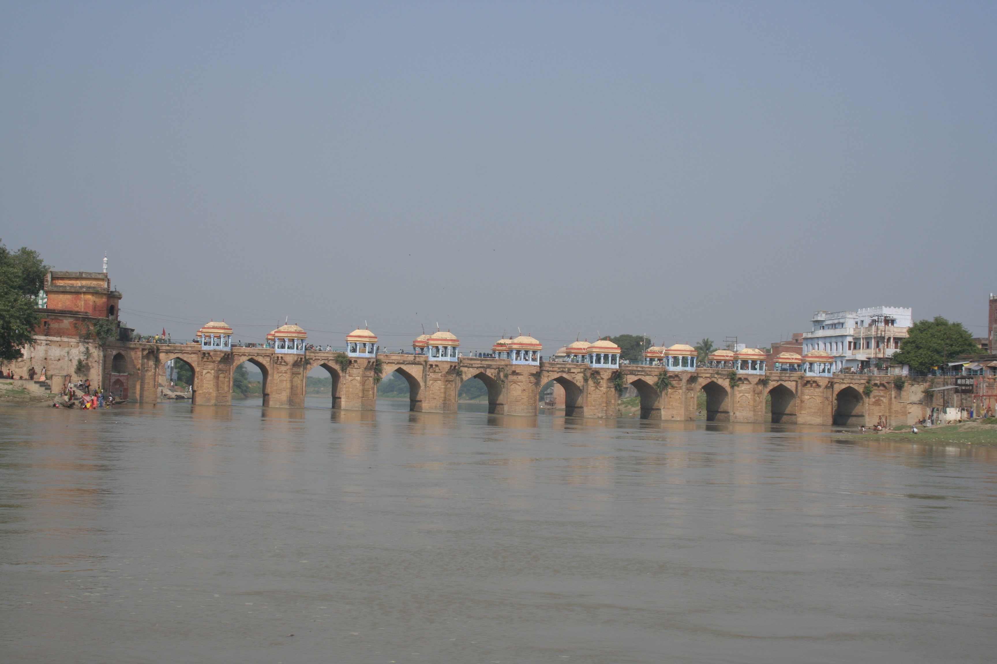 Photo taken on Thursday, October 13, 2005, 1:24:57 PM using Canon EOS350D Digital Camera.